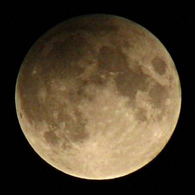 Penumbral lunar eclipse photo, February 2009 lunar eclipse. Location: Chennai, Tamilnadu, India